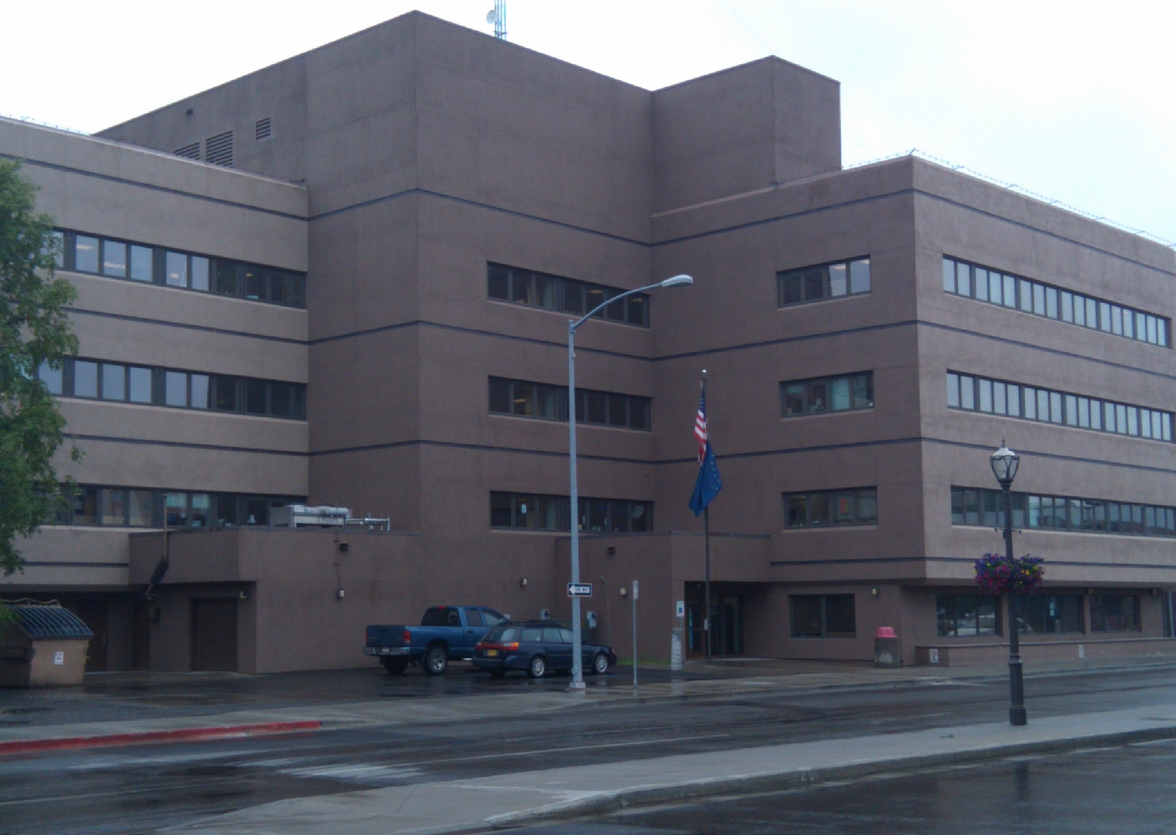 The north elevation (facing Fourth Avenue) of the headquarters building for the Fairbanks North Star Borough School District, 520 Fifth Avenue in downtown Fairbanks, Alaska.